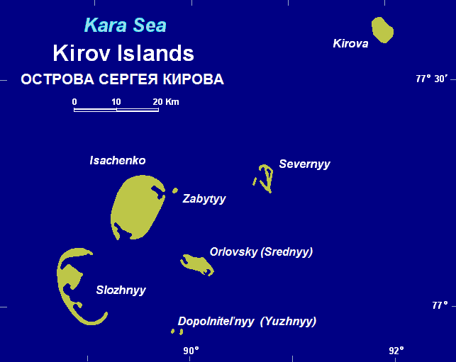 islands map